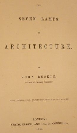 title page of book The Seven Lamps of Architecture by John Ruskin